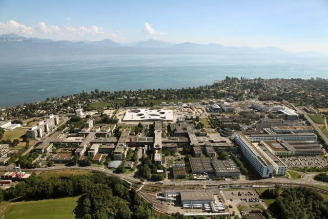 View of the École polytechnique fédérale de Lausanne.